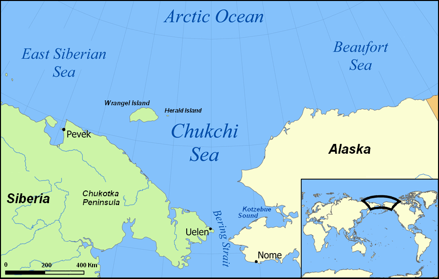 Map showing the location of the Chukchi Sea. Modified map based on map Image:Chukchi Sea map.png created by NormanEinstein, May 31, 2006.